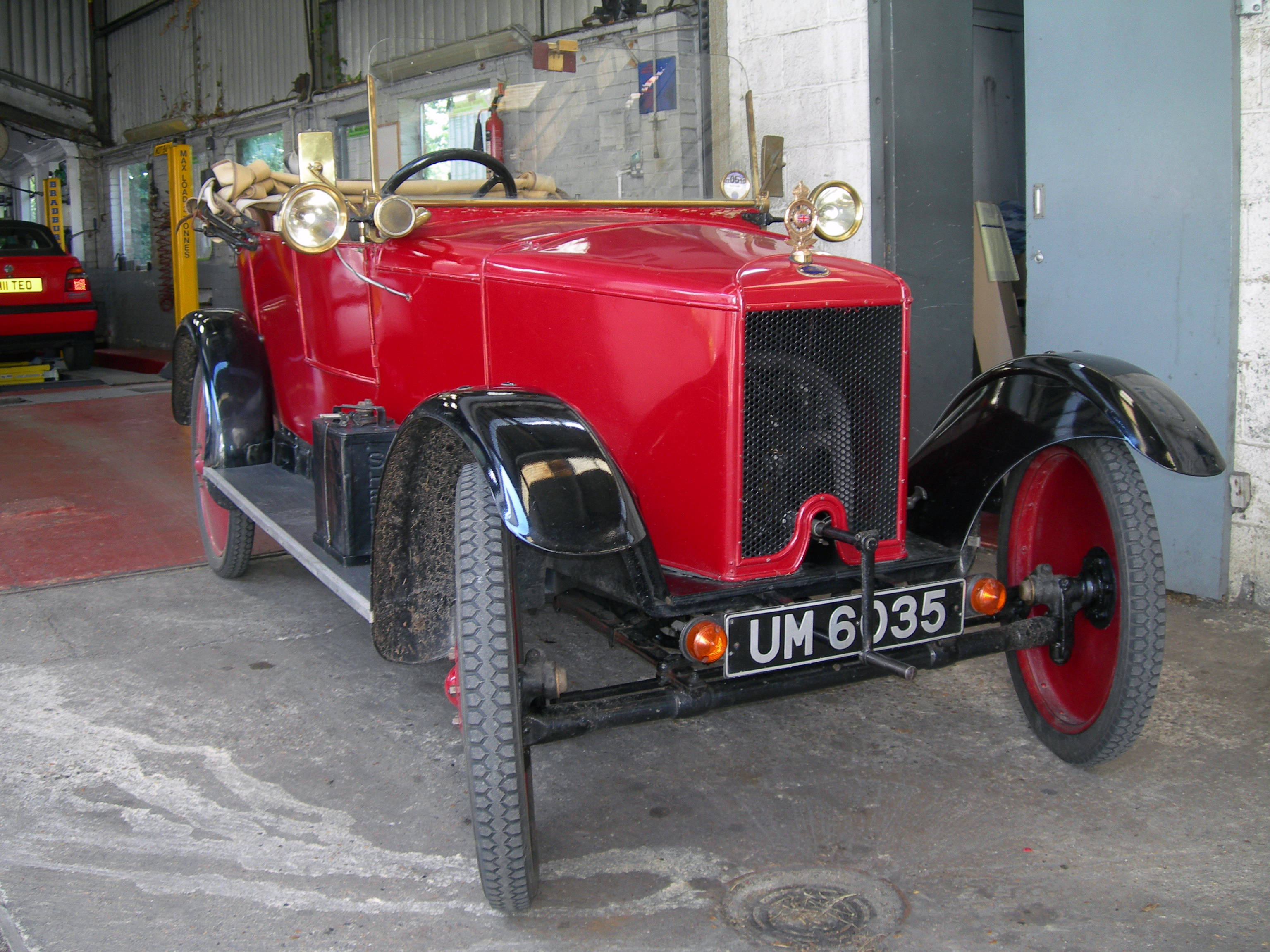 Reigate Heath,July 2009